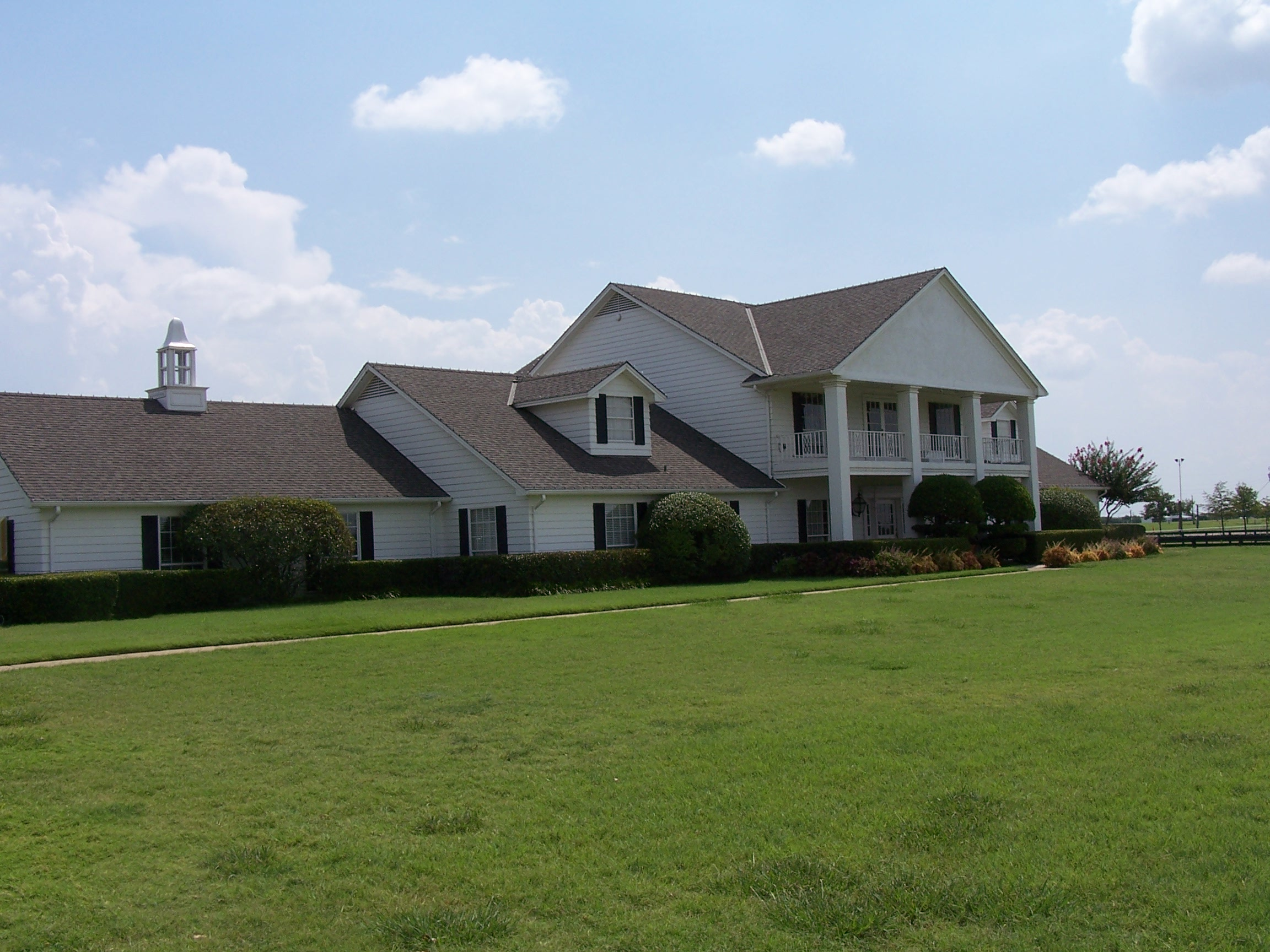 Frontal view of South Fork Ranch Mansion. In that house, the Ewing family from the TV program "Dallas" lived